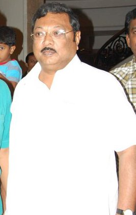 Shaik Mydeen and Mr. M. K. Alagiri